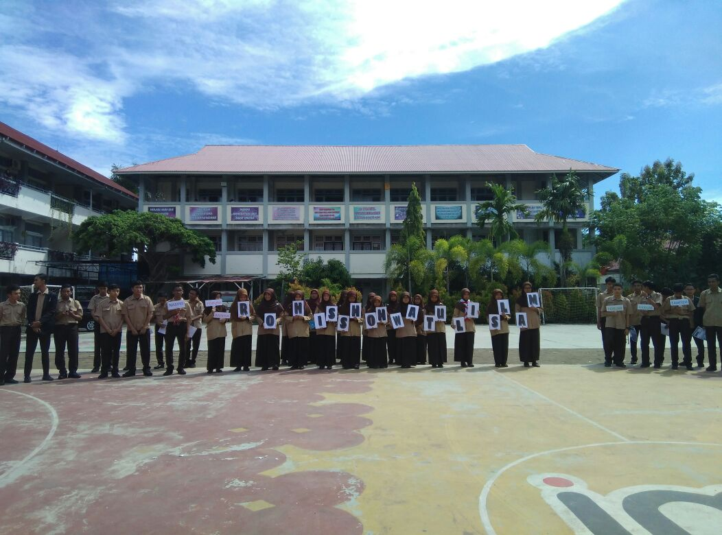 Rohis Keren Paten